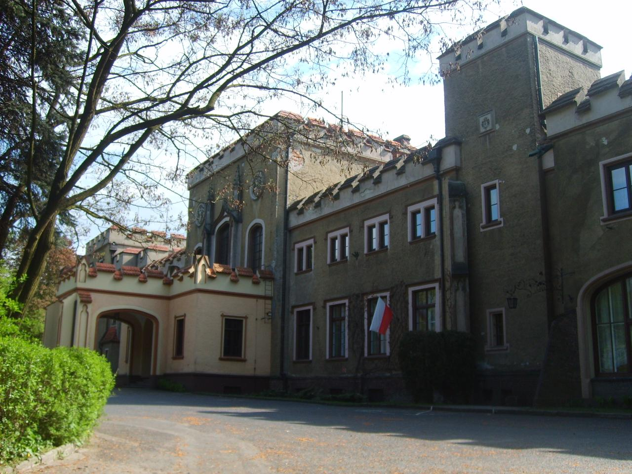 Jarocin, Poland